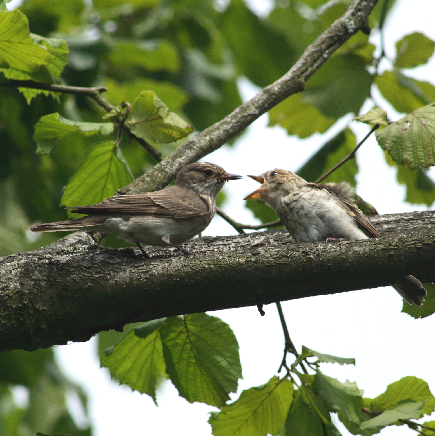 Spotted Flycatcher (Muscicapa striata) feeding a juvenile bird (on the right). Otterndorf, northern Lower Saxony, Germany.